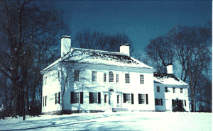 Ford Mansion